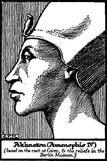 Akhnaton Cairo Cast